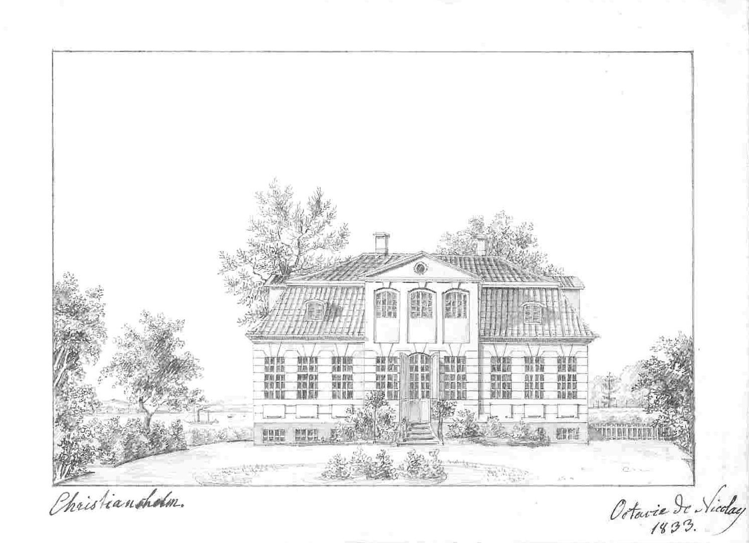 Christiansholm, Klampenborg, Octavie de Nicolay, 1833